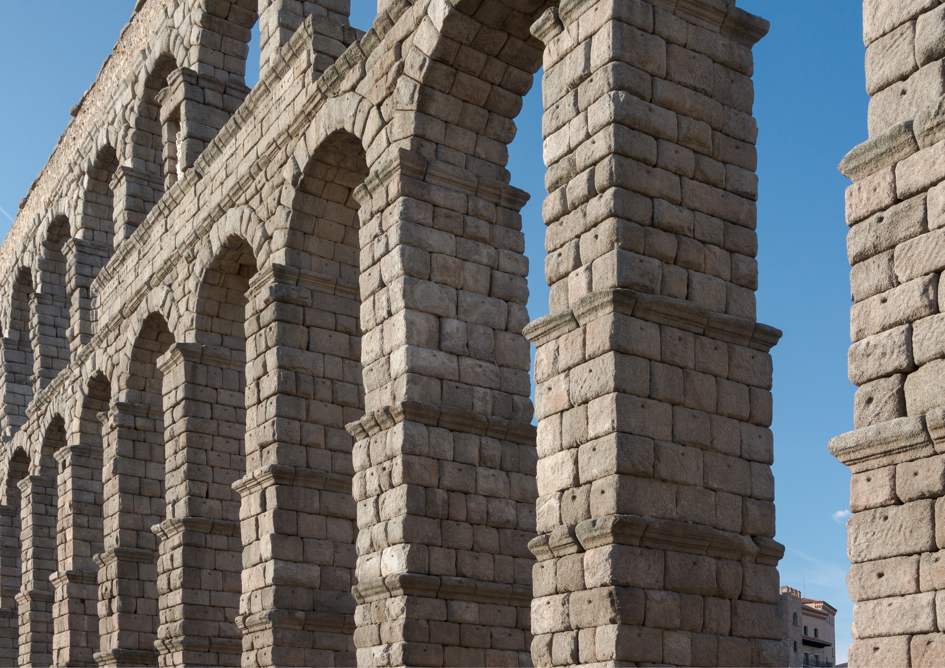 The roman aqueduct, detail of the central part, Segovia, Spain.